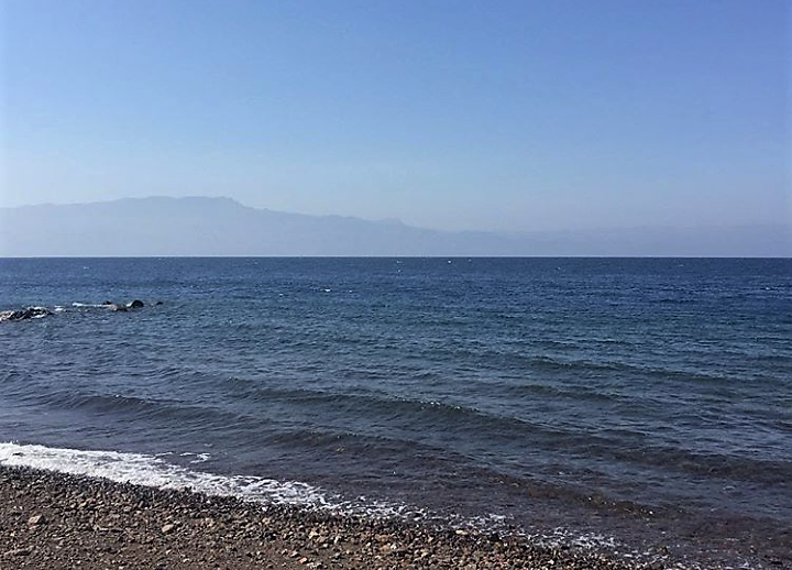 Photo of Gulf Of Tadjoura